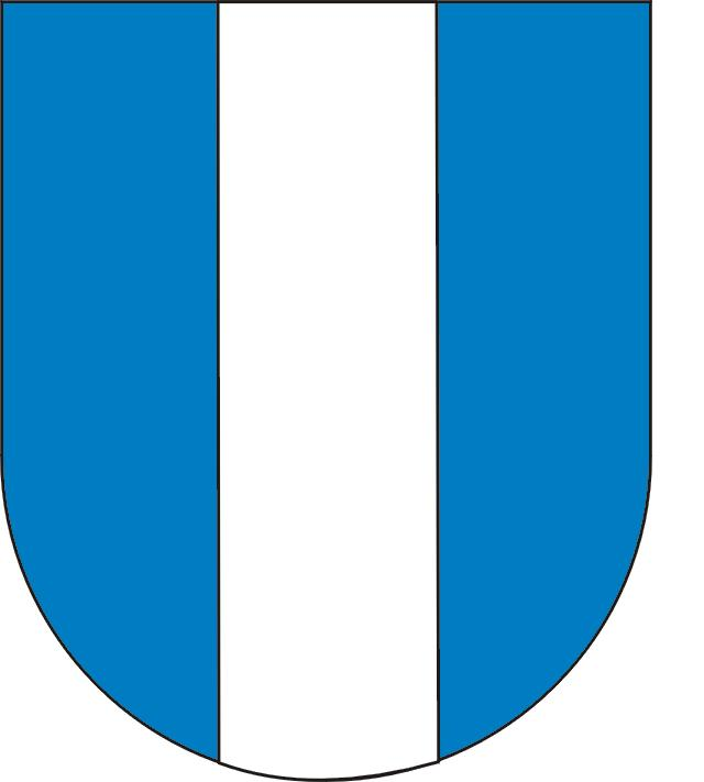 coat of arms